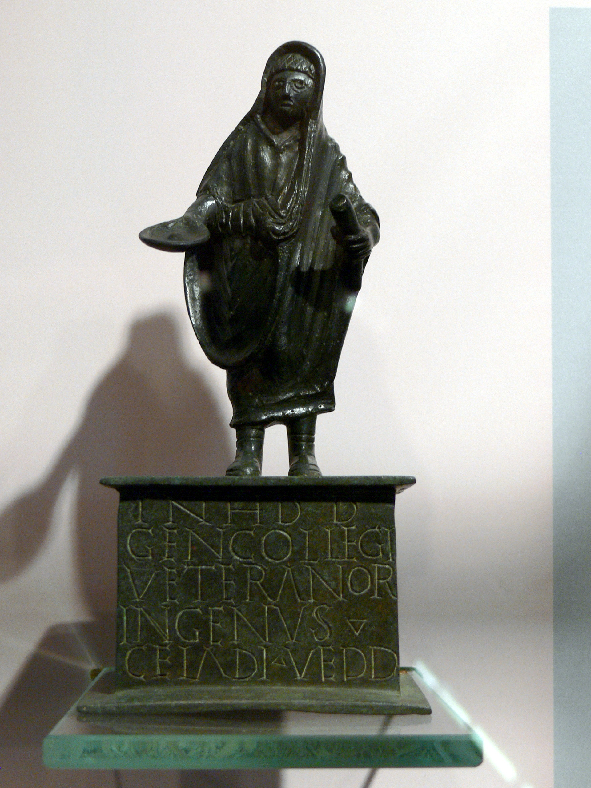 Museum Quintana - Roman department. Ex voto statue of a Roman priest.